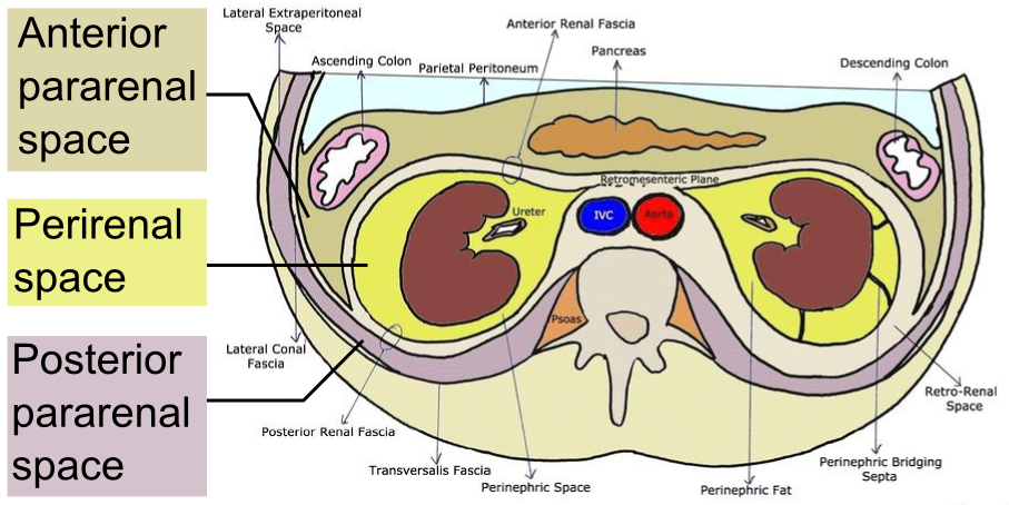 editTransverse plane through the kidneys, showing the retroperitoneal spaces and fasciae. The posterior pararenal space (PPS) and anterior pararenal space (APS) have been exaggerated to provide representation of their relation to other retroperitoneal structures. Perinephric bridging septa are seen between the left kidney and the adjacent renal fascia.